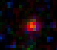 MACS0647-JD image,is a candidate for the farthest known galaxy from Earth and is at redshift of about z=10.7 or 13.3 billion light-years (4 billion parsecs) away. It formed 420 million years after the Big Bang. It is less than 600 light-years wide.